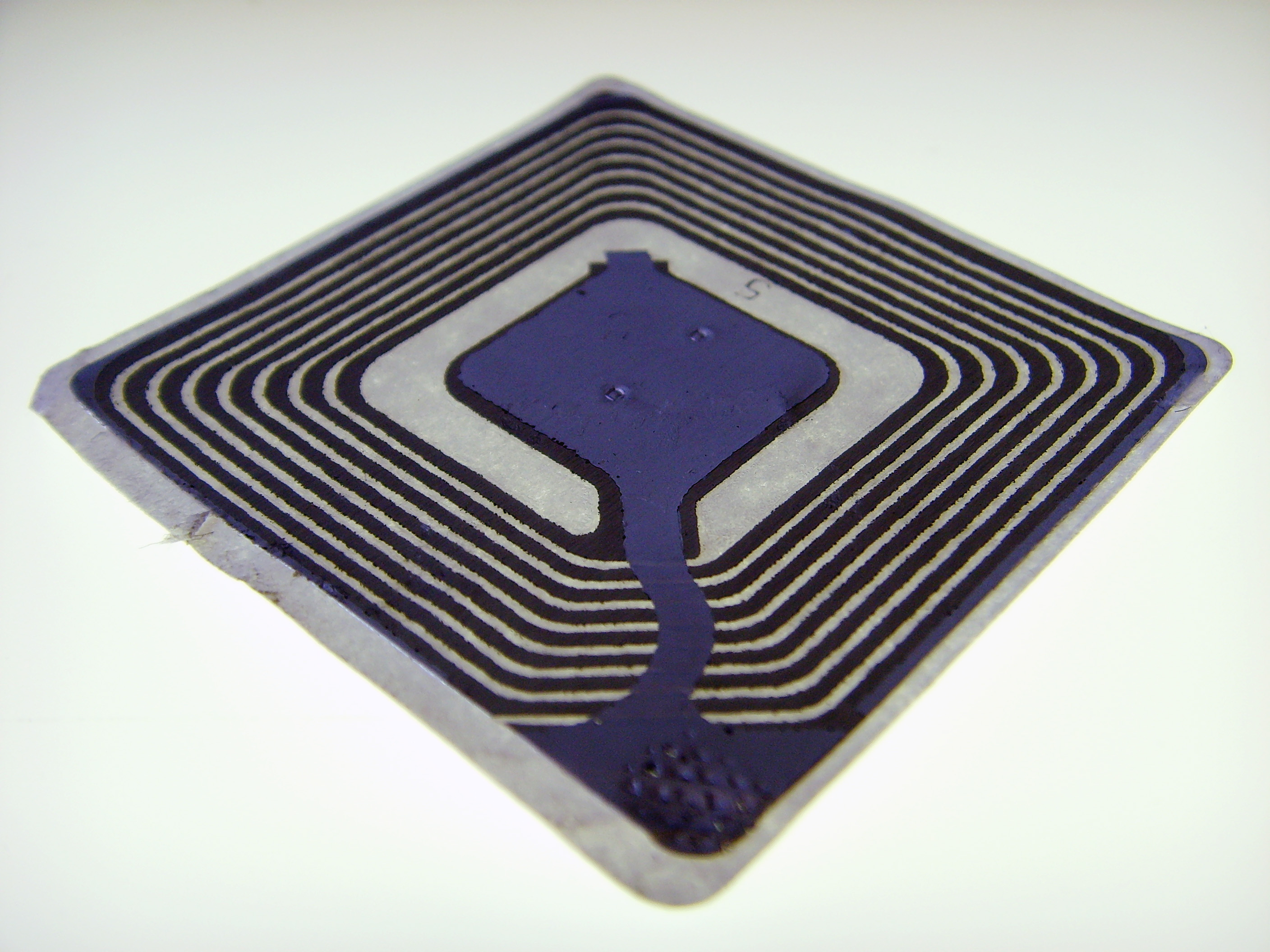 RFID Chip mit Resten eines Barcode Aufkleber, Sicherungsetikett auf einer DVD eines Elektrogeschäftes : RFID in a form of a sticker with bar code on the opposite side, security chip for a DVD Source: own work Date: March 11, 2008 Author: Maschinenjunge Licence: GFDL, cc-by 3.0